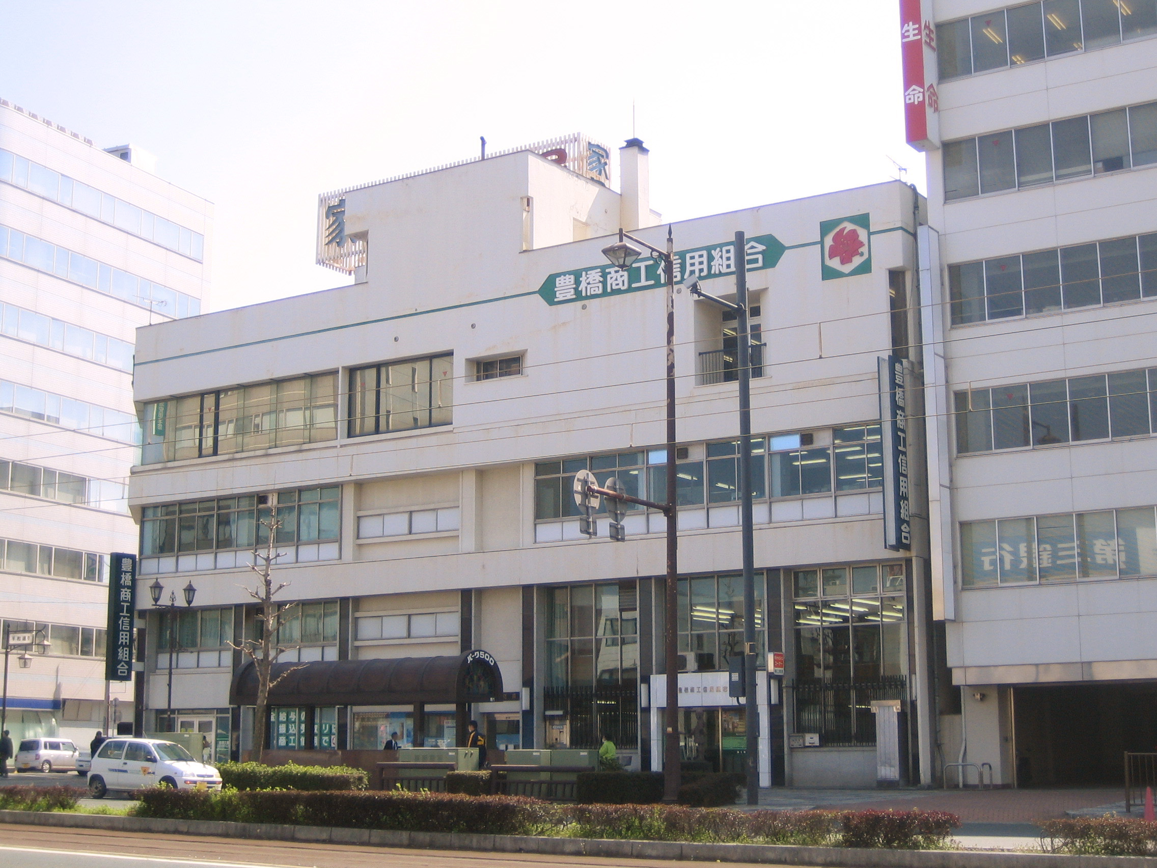 豊橋商工信用組合本店。愛知県豊橋市 Toyohashi Shoko Credit Cooperative (豊橋商工信用組合 Toyohashi Shōkō Shin'yō Kumiai), located in Toyohashi, Aichi, Japan